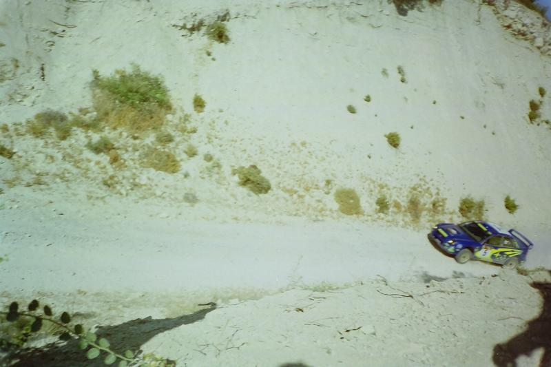 Richard Burns in his Subaru Impreza WRC2001 at the 2001 Cyprus Rally.